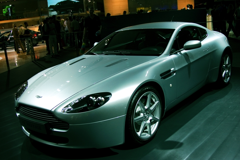 Silver Aston Martin V8 Vantage coupé at the IAA 2005Aston Martin